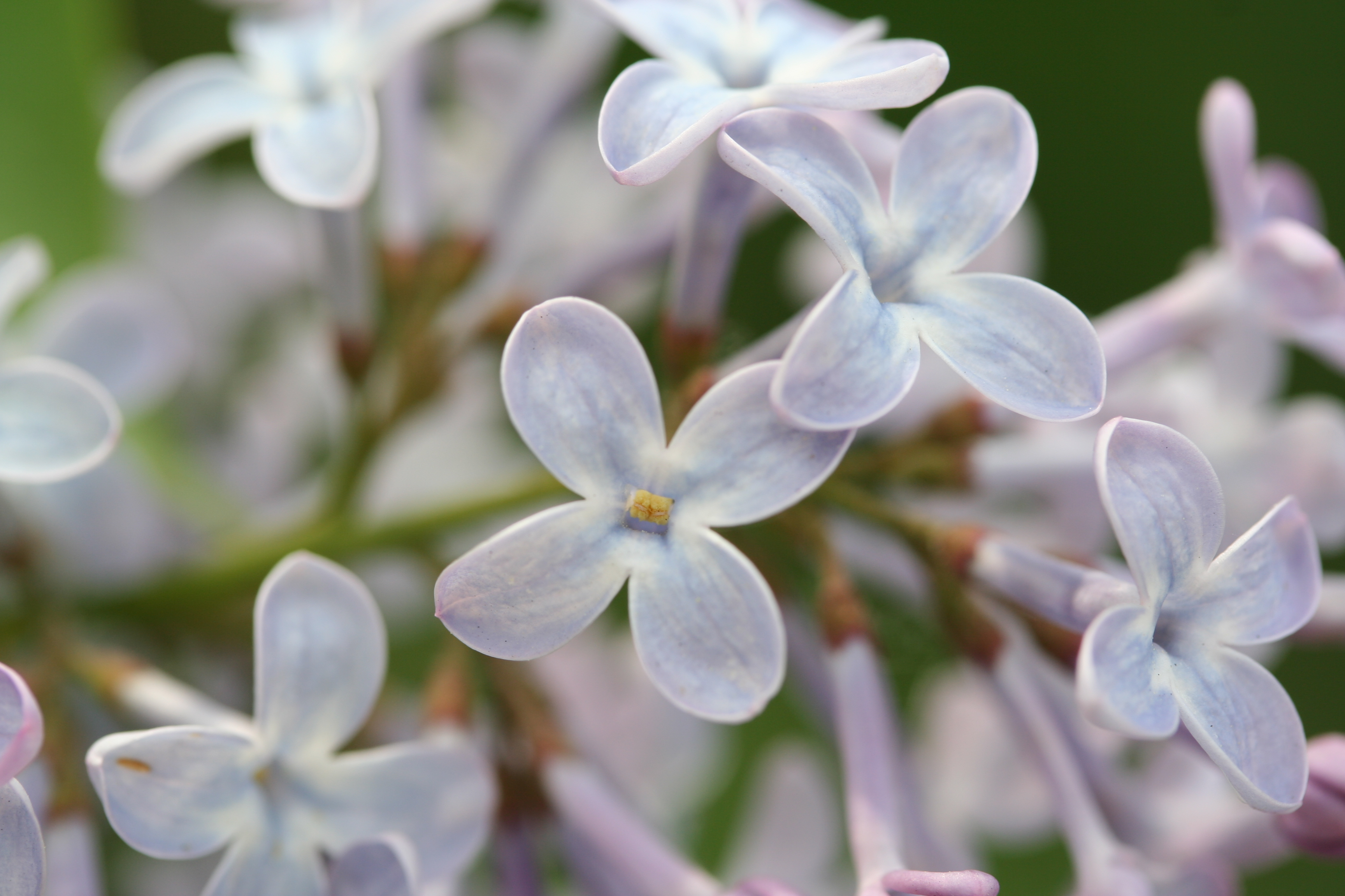 Syringa vulgaris 13 May 2006 IJmuiden, the Netherlands